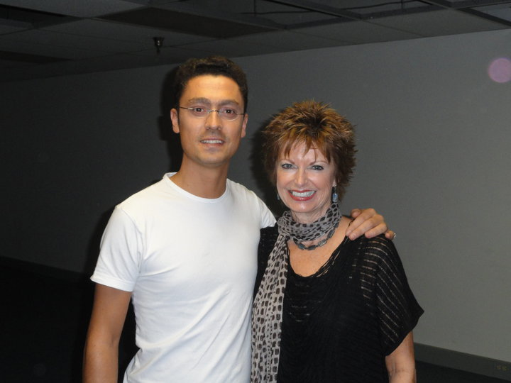 Joan Carrasco from the Spanish Doo wop band Earth Angels with Kathy Young, best-known for her top-40 hit A Thousand Stars in 1960. The picture was taken during their participation in the Doo wop festival at the Hotel Hilton in Pittsburgh, Pennsylvania in May 2010, with the greatest American doo wop groups of the 20th century.